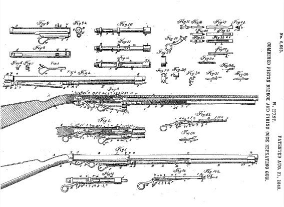 Combined Piston Breech, Patent 6,663